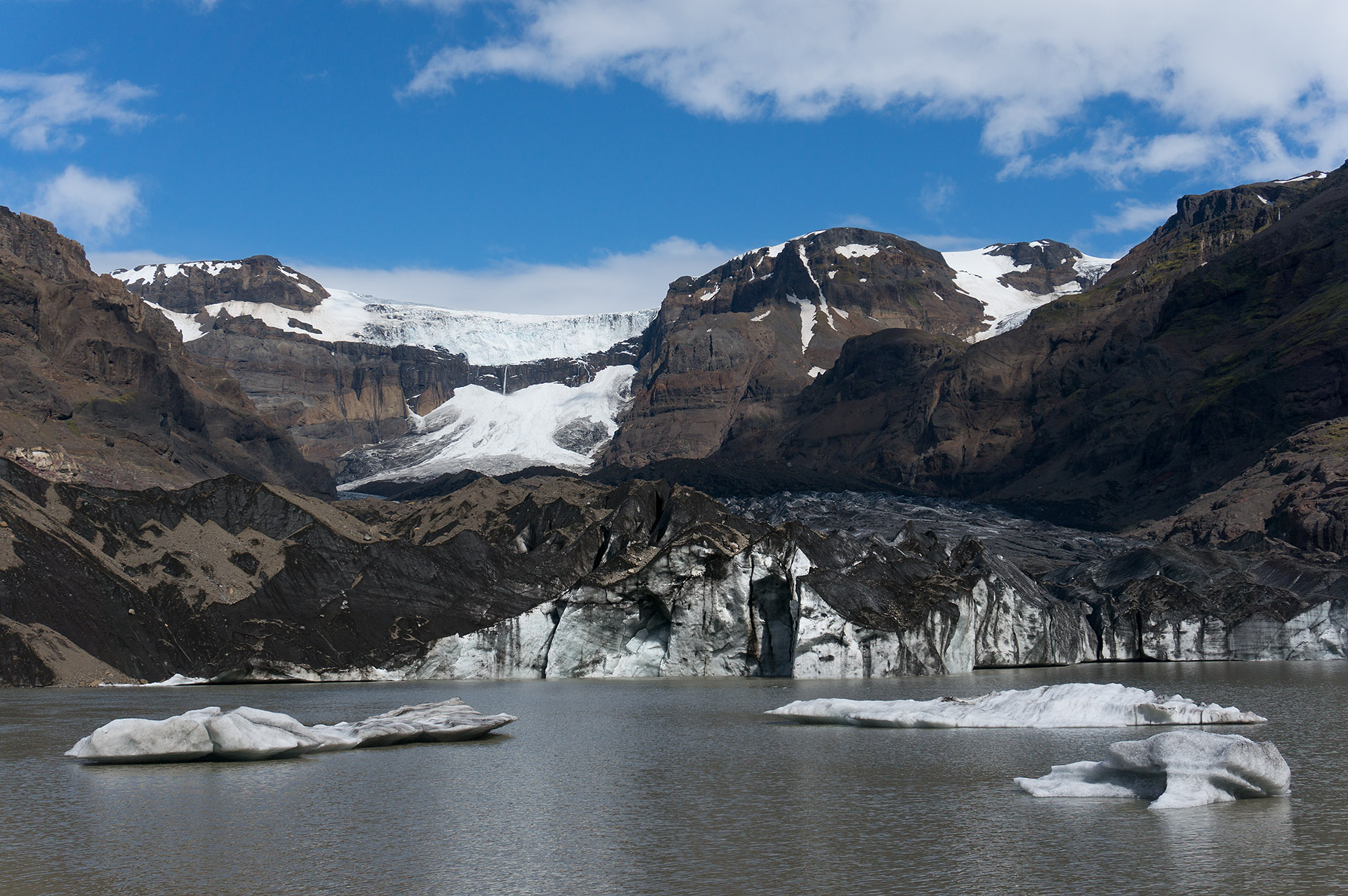 Eastern Region, Iceland